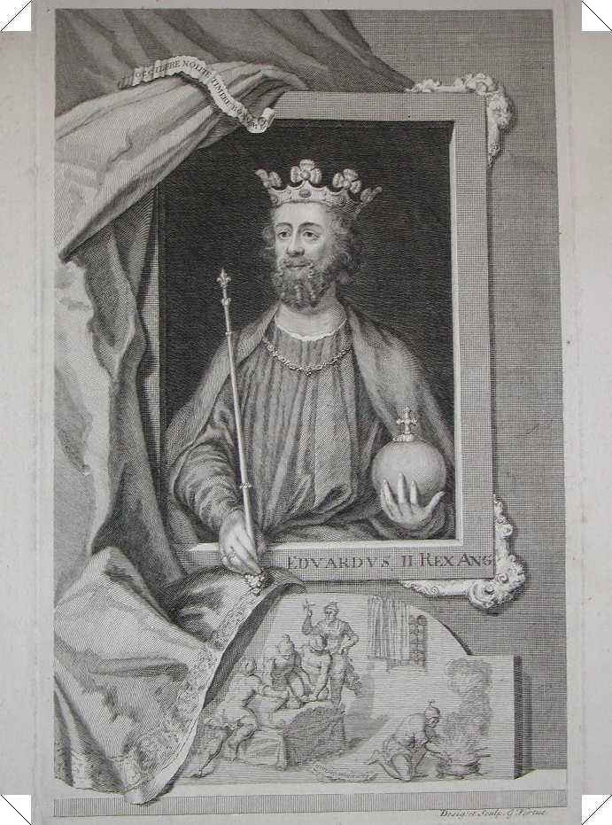 King Edward II of England. He was murdered by having an intensely heated plumber’s iron shoved into his anus. It was part of a plot to depose him filled with symbolism over his homosexuality. The bottom scene depicts his death.